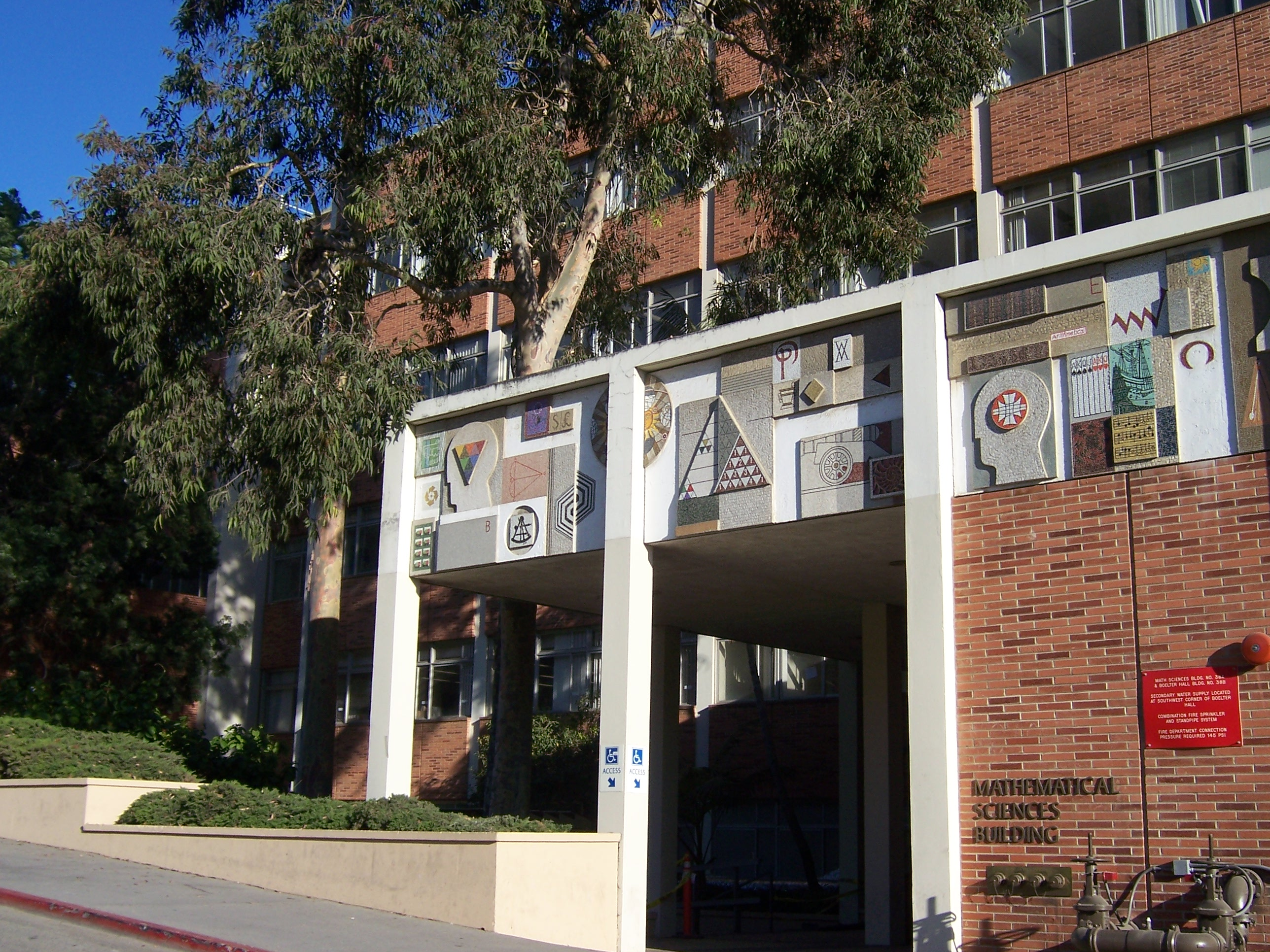 UCLA Mathematical Sciences Building